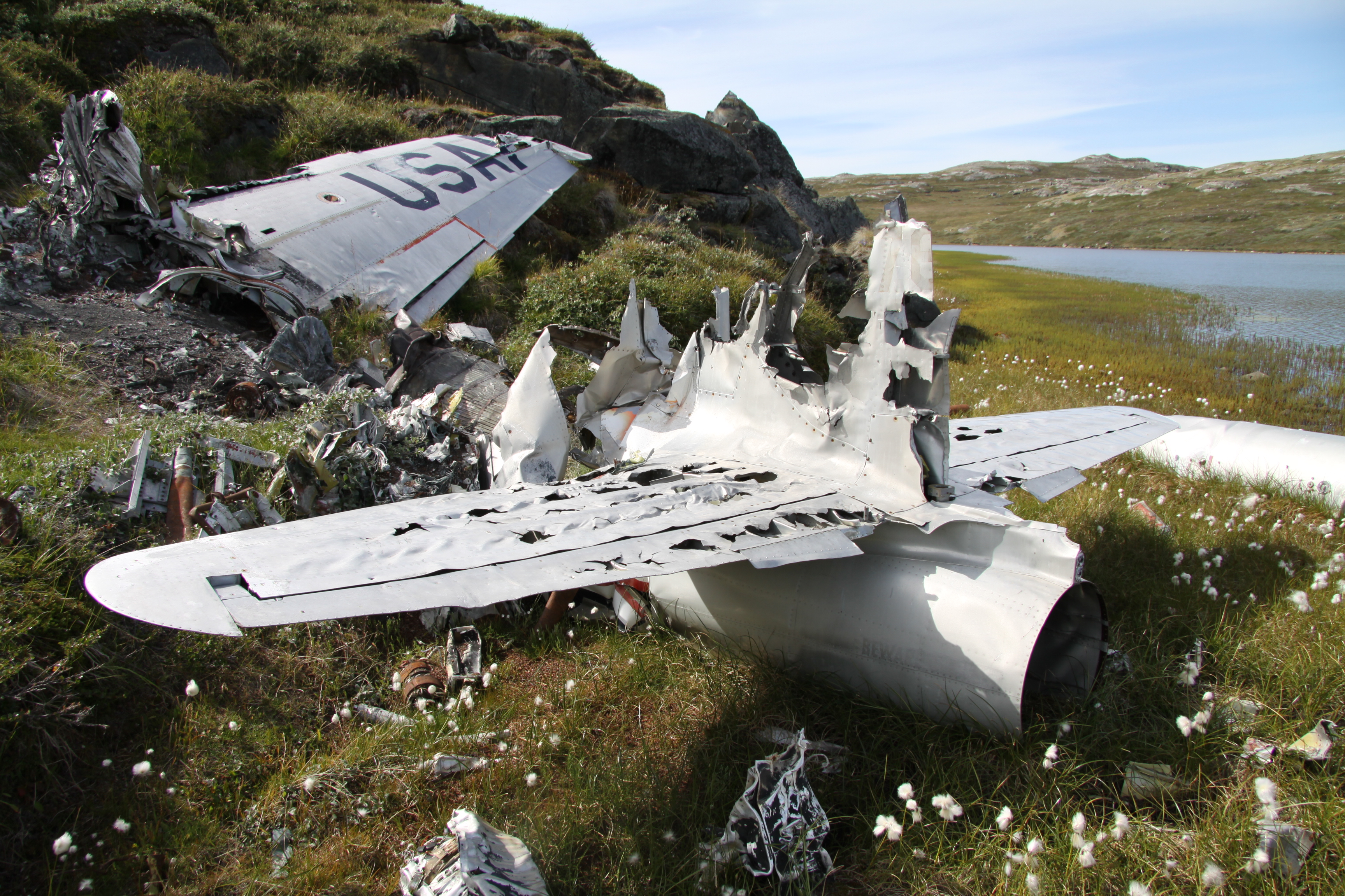 American T-33 Shooting Star wreckage near Kangerlussuaq from winter 1968, Greenland.